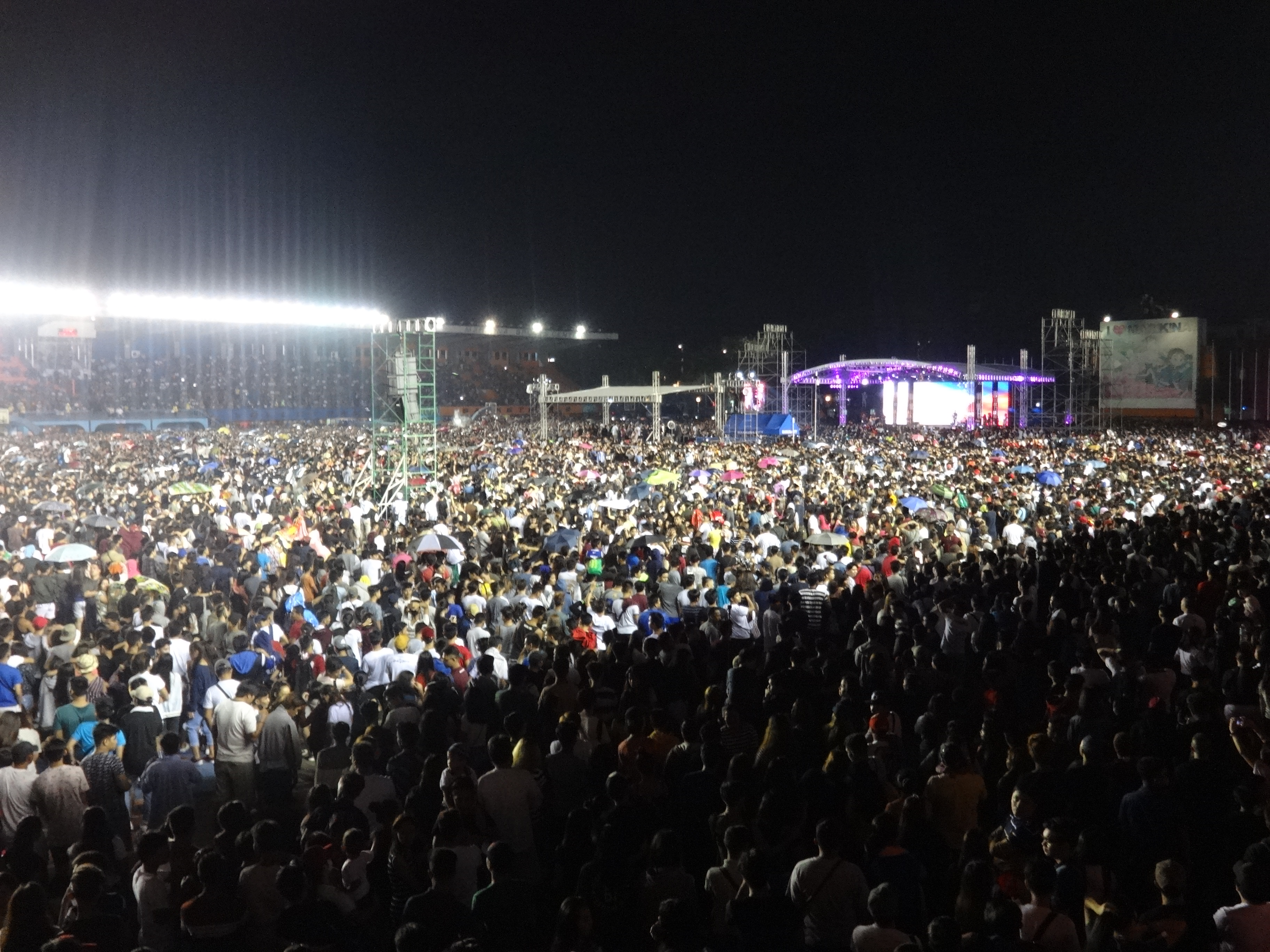 Marikina Sports Center at Sumulong Highway, Marikina City